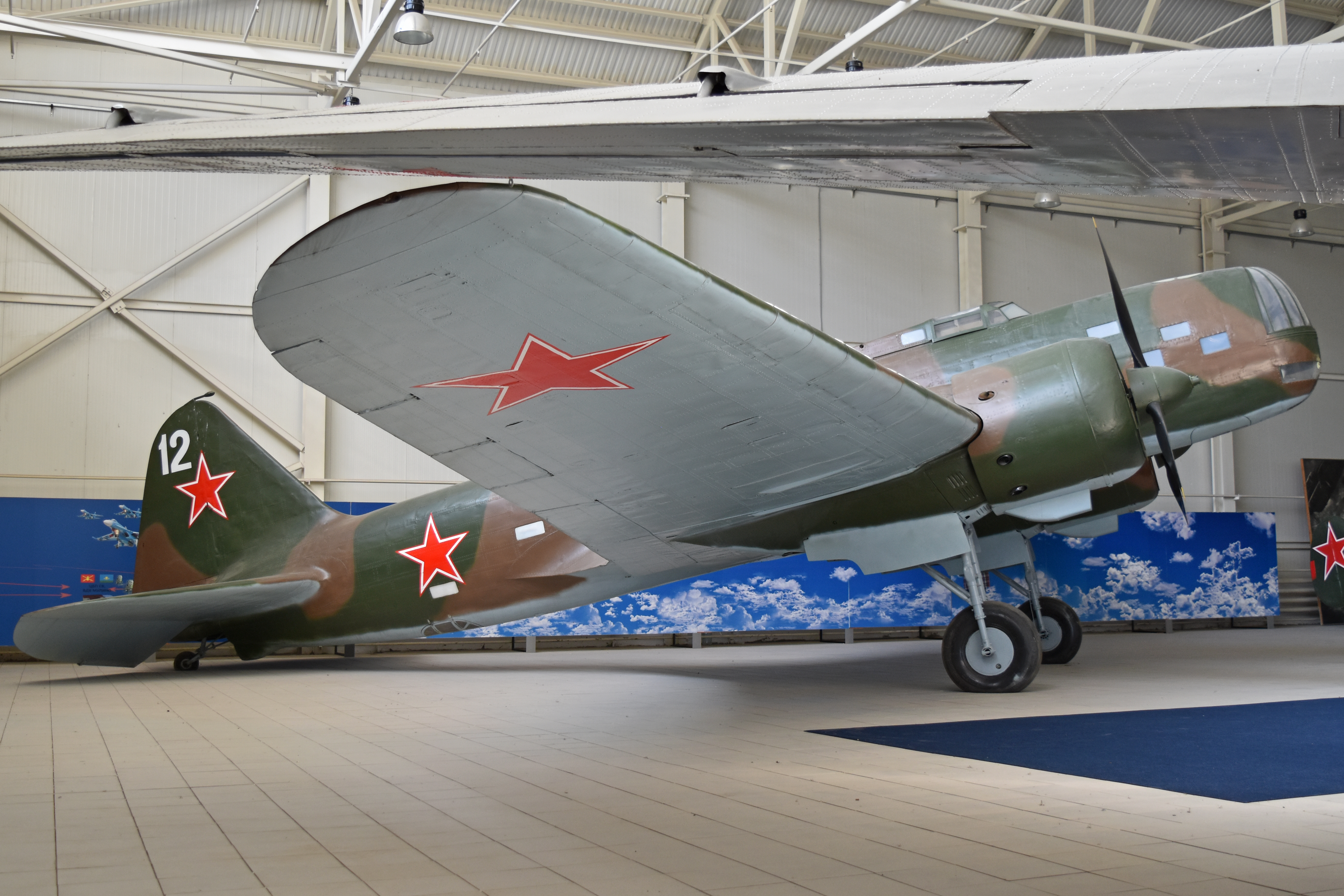 c/n 891311. The DB-3 first flew in 1935 and remained in service until replaced by the Il-4, which was actually a redesigned DB-3 officially designated the DB-3F. See here for the sole surviving Il-4 :- But I digress….. The DB-3 served as a long-range bomber and in August 1941 the type carried out the first Soviet bombing of Berlin. They saw action during the ‘Winter War’ with Finland and a few captured examples saw both Finnish and German service. This is the only surviving example and was recovered in September 1988 from taiga forests about 75miles from Komsomolsk-on-Amur. Restored at the Irkutsk Aircraft Industrial Association factory, it was delivered to Monino by an An-22 and was handed over to the museum in December 1989. After a few years outside, it is now safely on display in the new Hangar 6B which has been built behind the main entrance building. At the time of our visit the hangar had not been officially opened to the public, but we were given special permission to access it from Hangar 6A. Central Air Force museum, Monino, Moscow Oblast, Russia. 27th August 2017